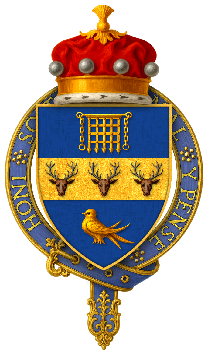 Garter-encircled arms of John Loder, 2nd Baron Wakehurst, KG, as displayed on his Order of the Garter stall plate in St. George's Chapel, Windsor Castle - viz. Azure, on a fesse between in chief a portcullis chained and in base a martlet or, three stag's heads cabossed proper.